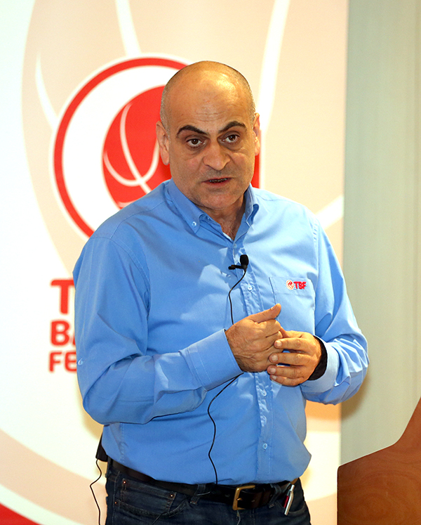 recep ankarali photo